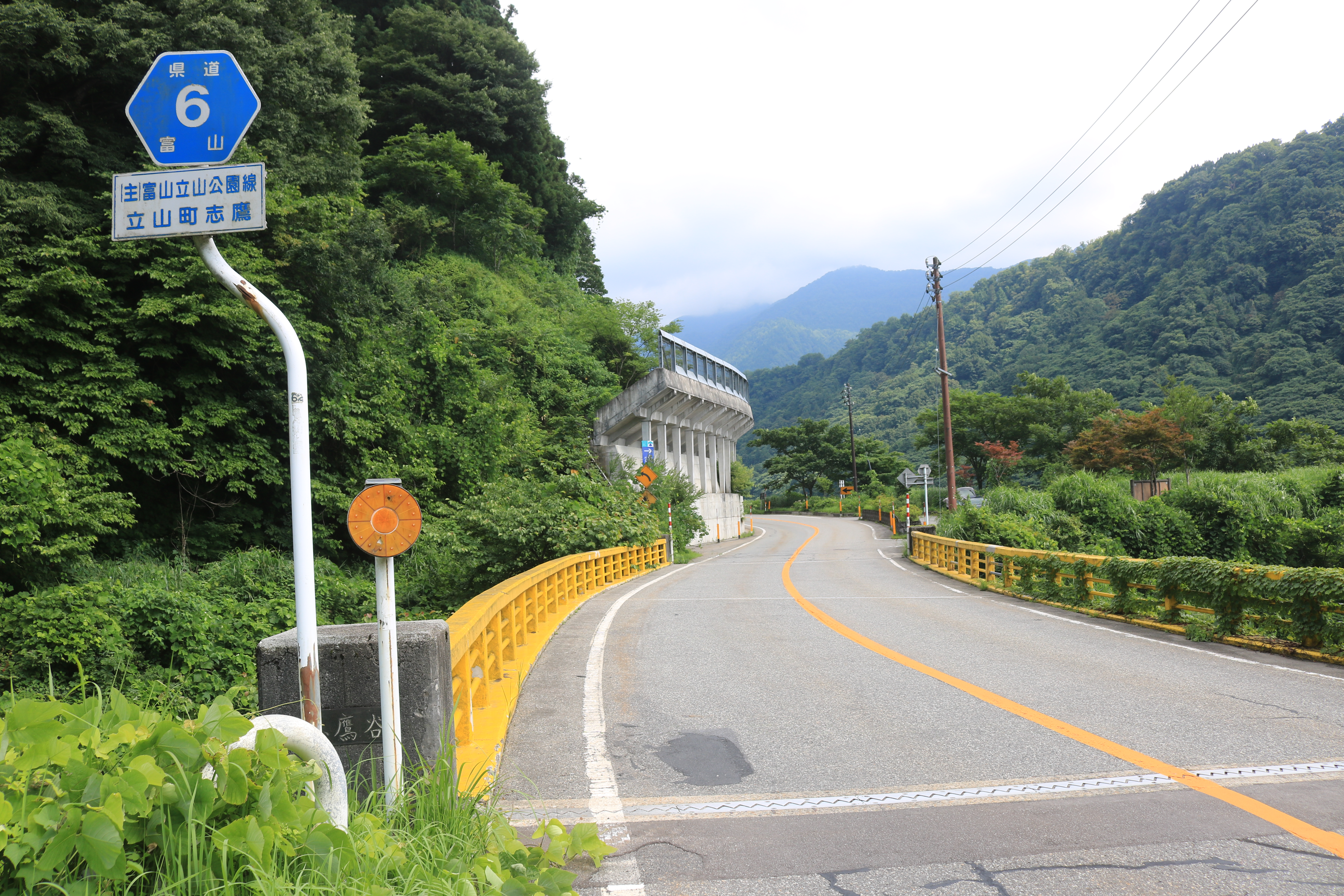 Toyama Prefectural Road Route 6 in Ashikuraji, Tateyama, Toyama prefecture, Japan.